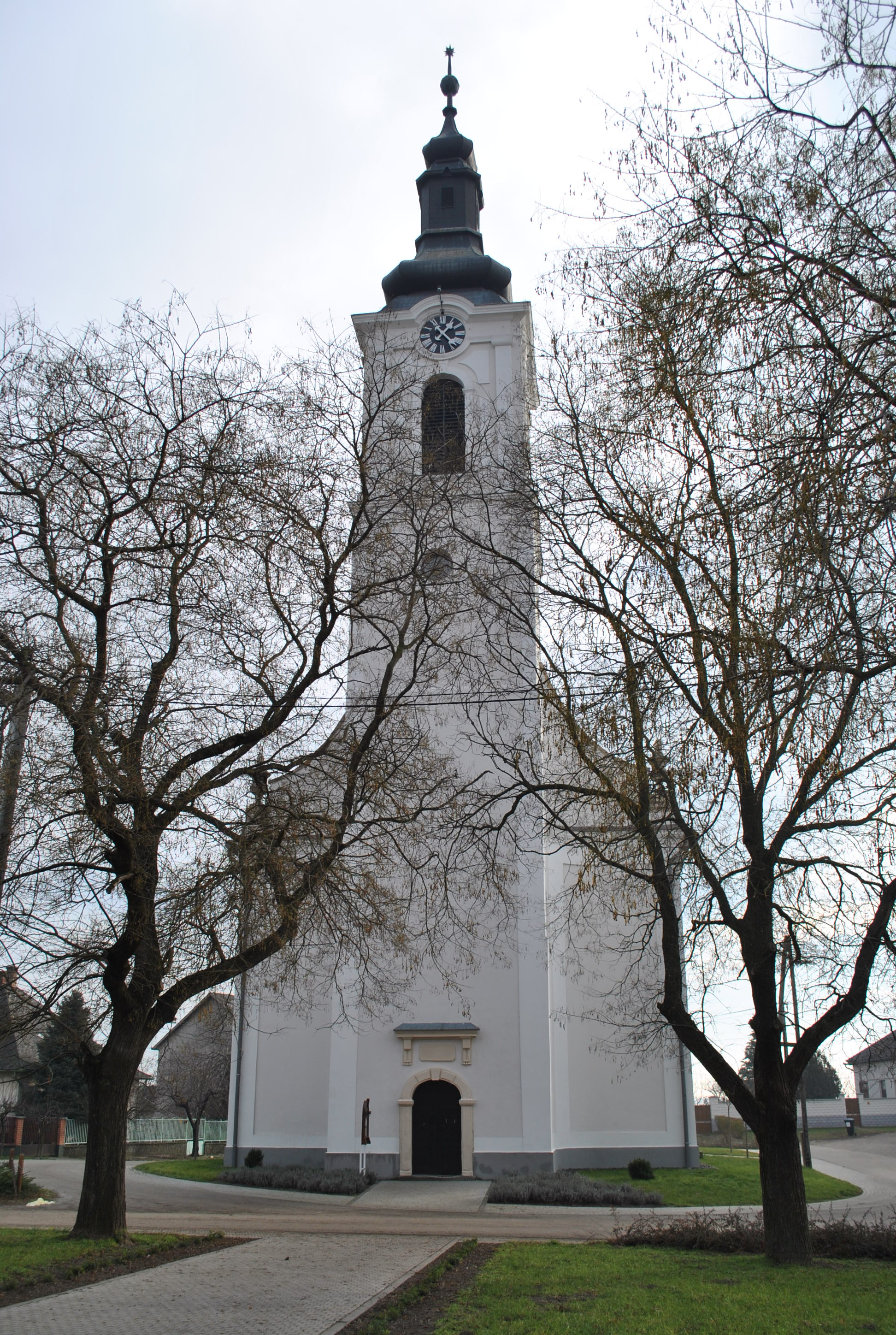 Church of Madocsa This is a photo of a monument in Hungary, Identifier: 8664